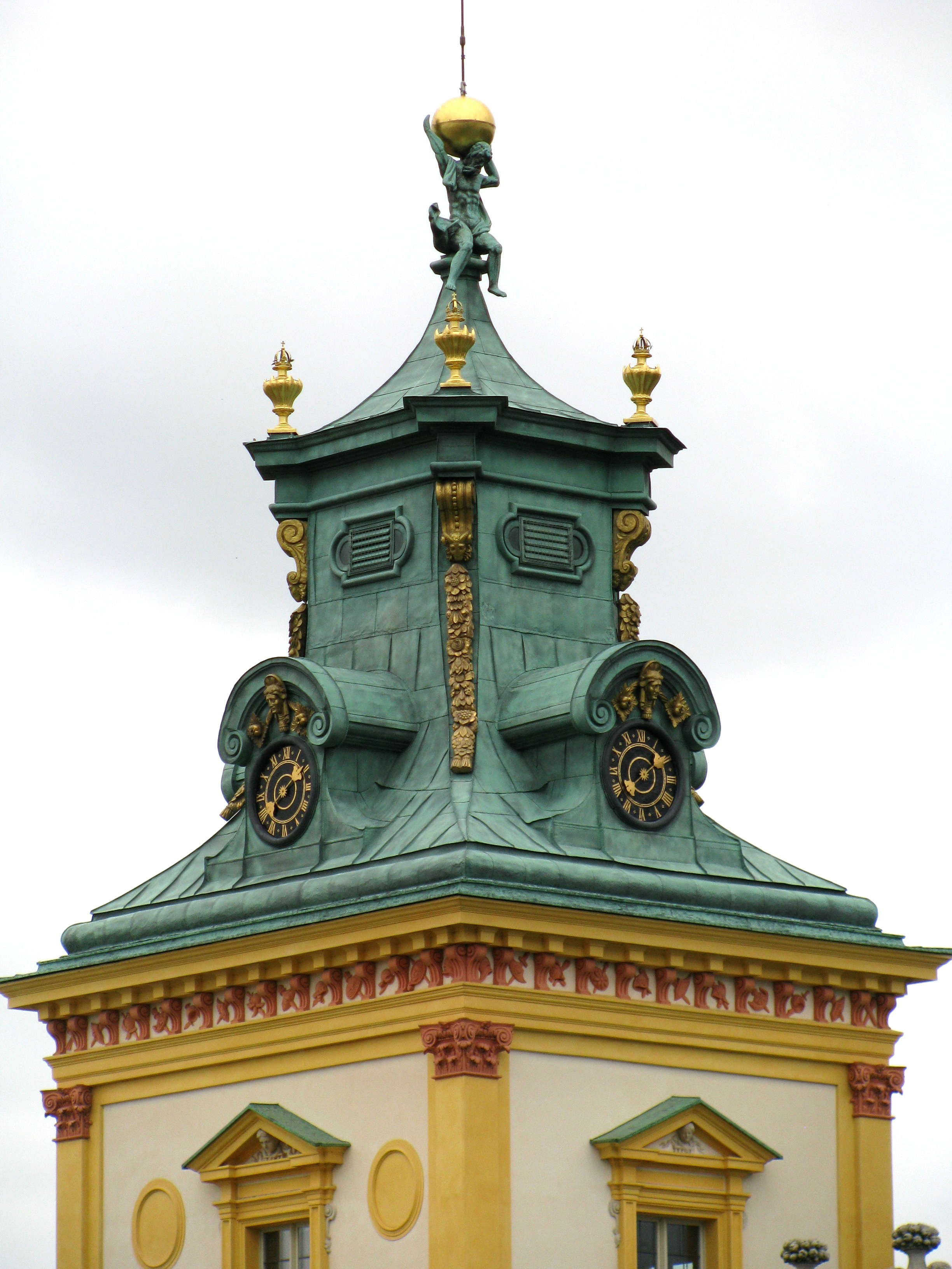 Tower of Wilanów Palace, Warsaw (Warszawa). The Scotch Mist Gallery contains many photographs of historic buildings, monuments and memorials of Poland.